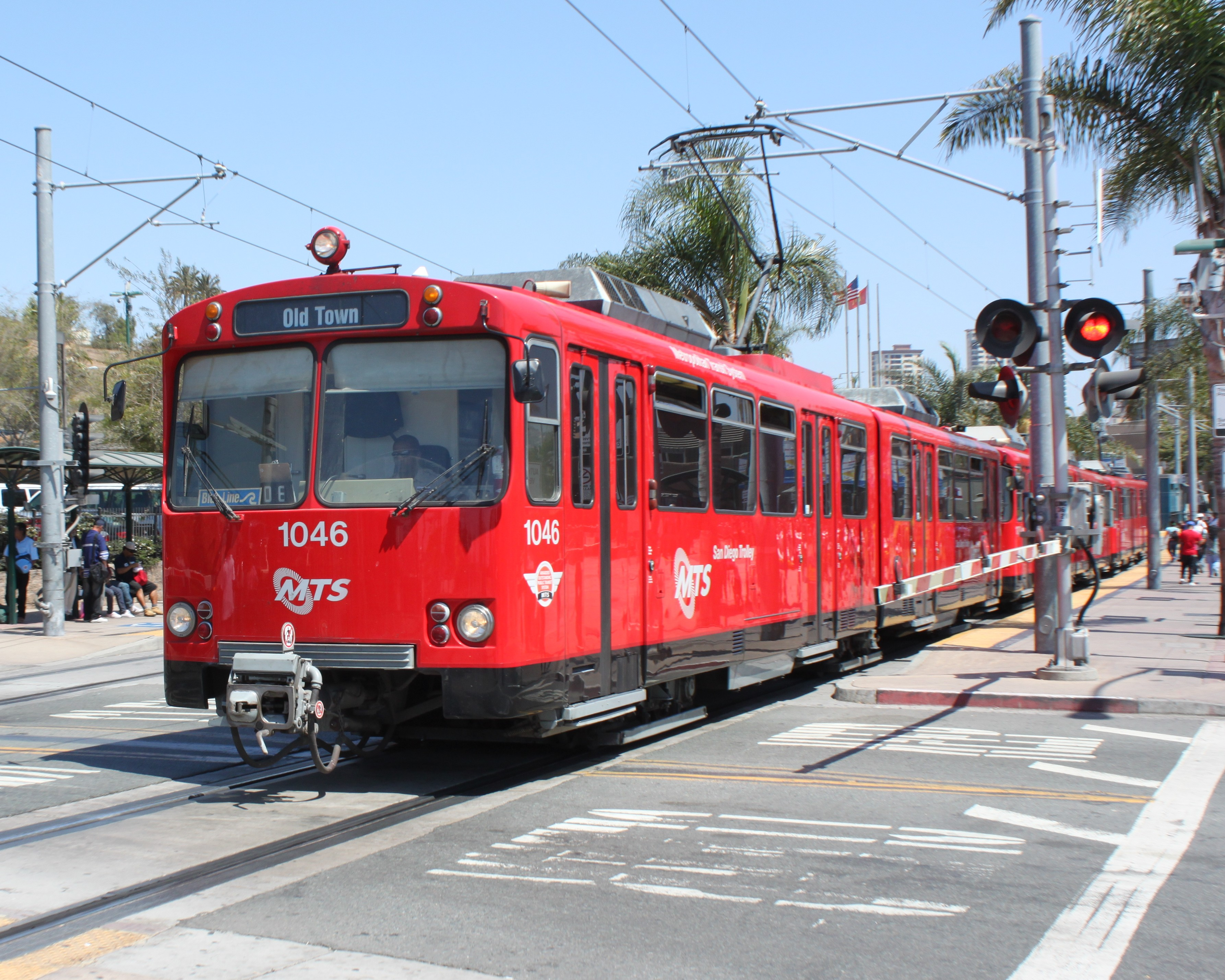 San Ysidro Station at USA / Mexico Border, California